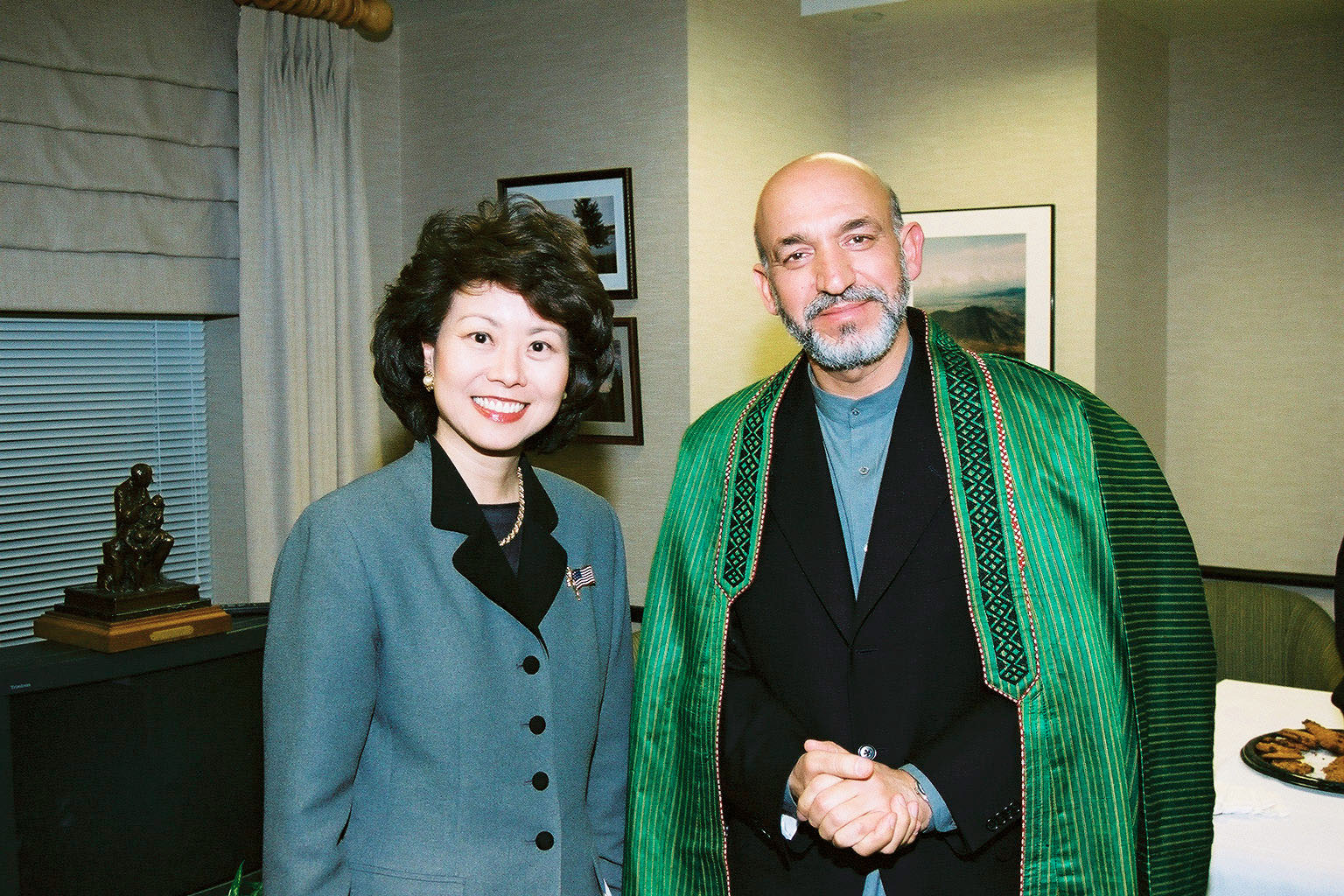 Afghan Interim Chairman Hamid Karzai meets Labor Secretary Elaine Chao at a USAID ceremony announcing the first U.S. funded programs for Afghanistan reconstruction.